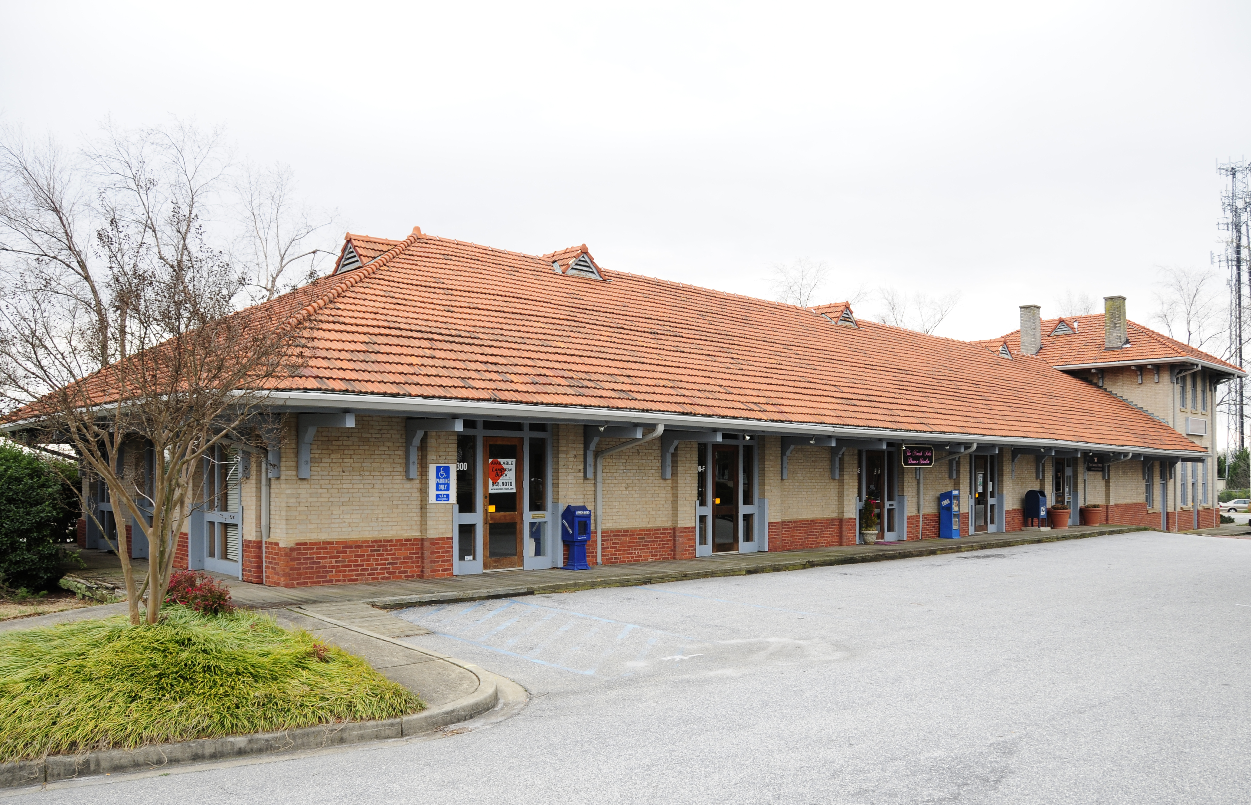 Greer Depot